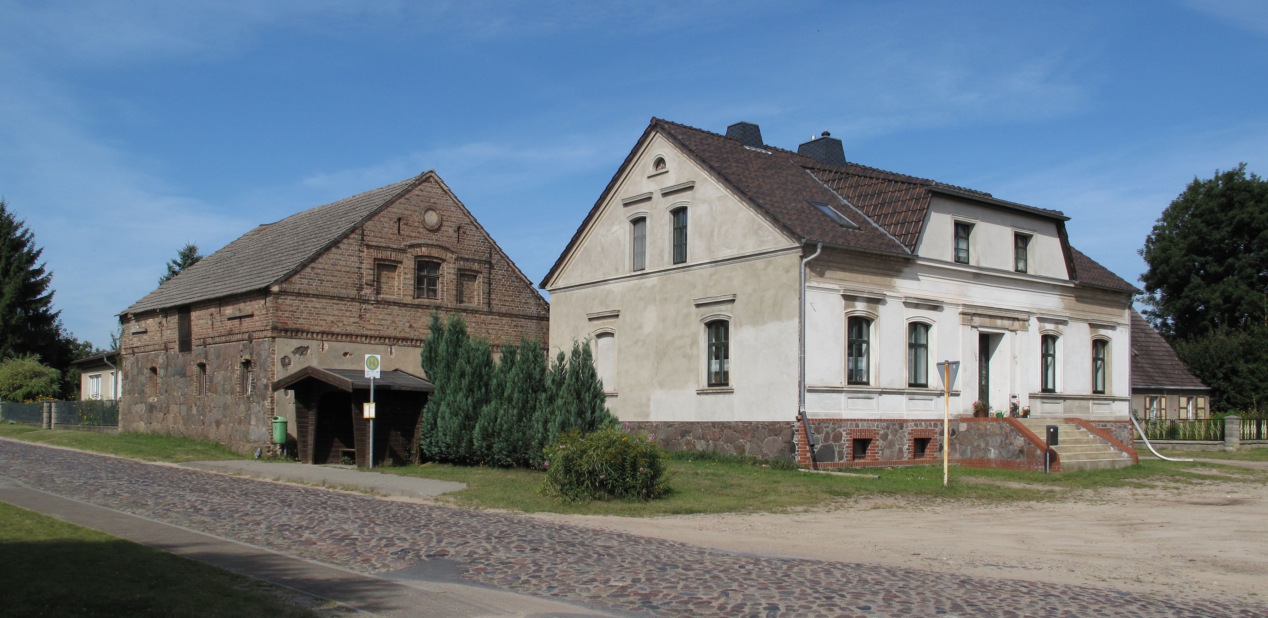 The village Grunow is a civil parish (Ortsteil) of the municipality Oberbarnim in the District Märkisch-Oderland, Brandenburg, Germany. Grunow was first mentioned in written documents in 1315 and is situated on the Barnim Plateau in the Märkische Schweiz Nature Park. In 2010 the village had about 350 inhabitants (incl. it’s part Ernsthof). Due to its fieldstone-Builsdings and –streets Grunow is a part of the Oberbarnimer Feldsteinroute, a 41,5 kilometers long walking and bike trail in the traces of the building material fieldstone.